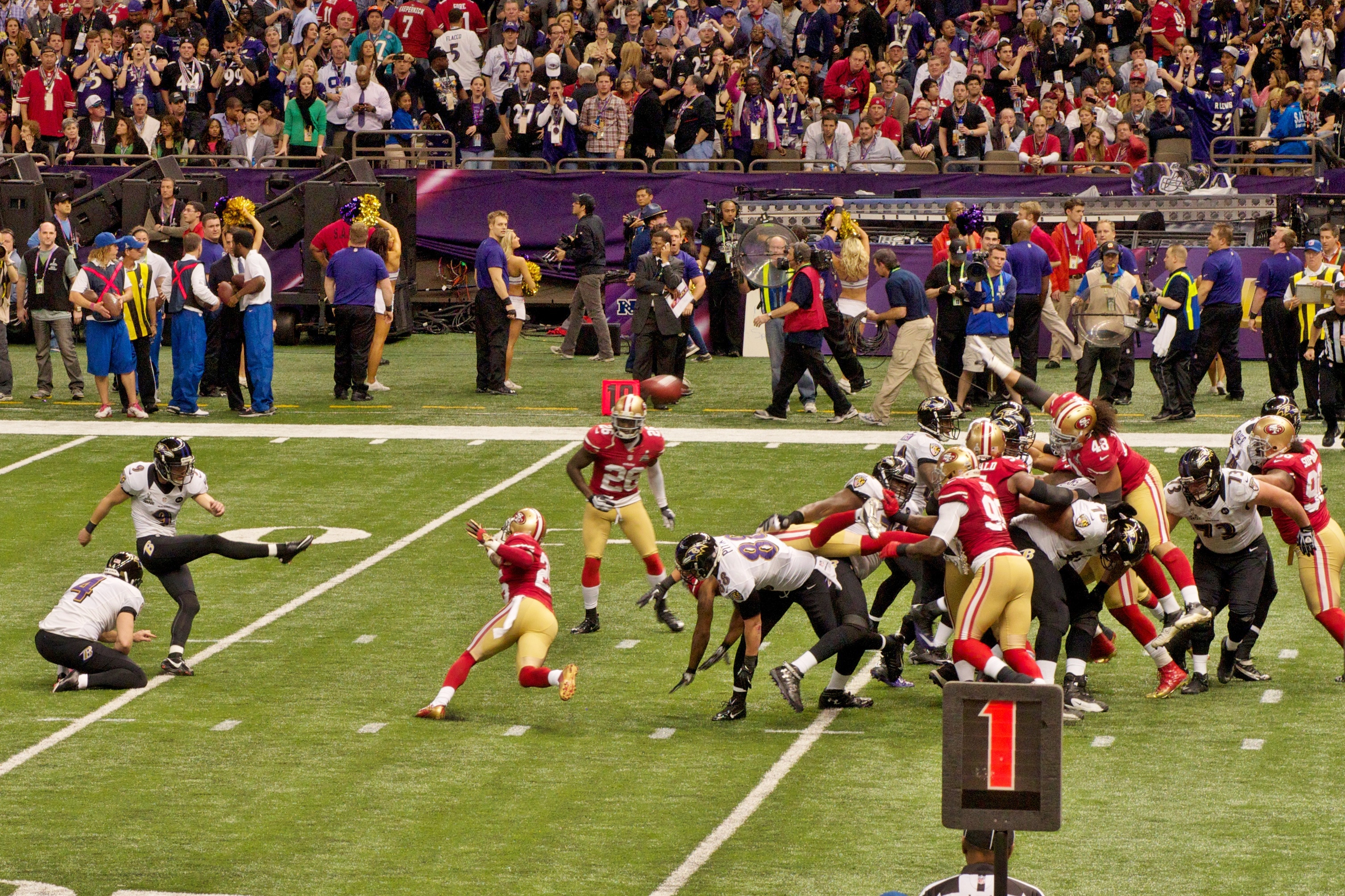 Baltimore Ravens kicker Justin Tucker kicks a field goal attempt in Super Bowl XLVII.